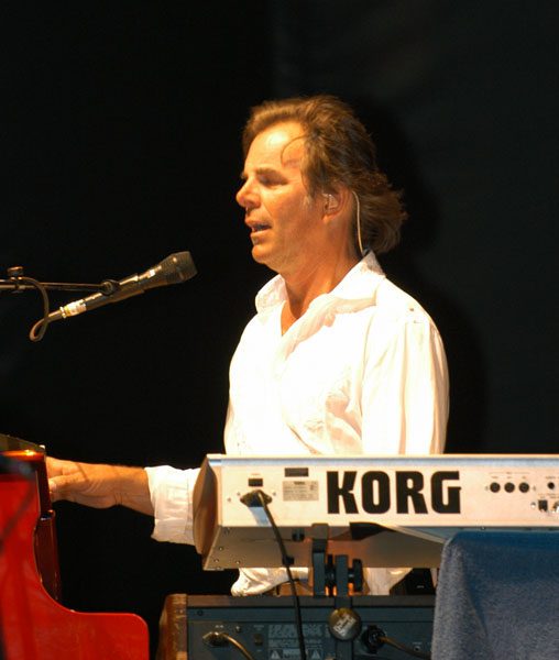 Photo of Jonathan Cain, created by Mark Bentley on 12 May 2007